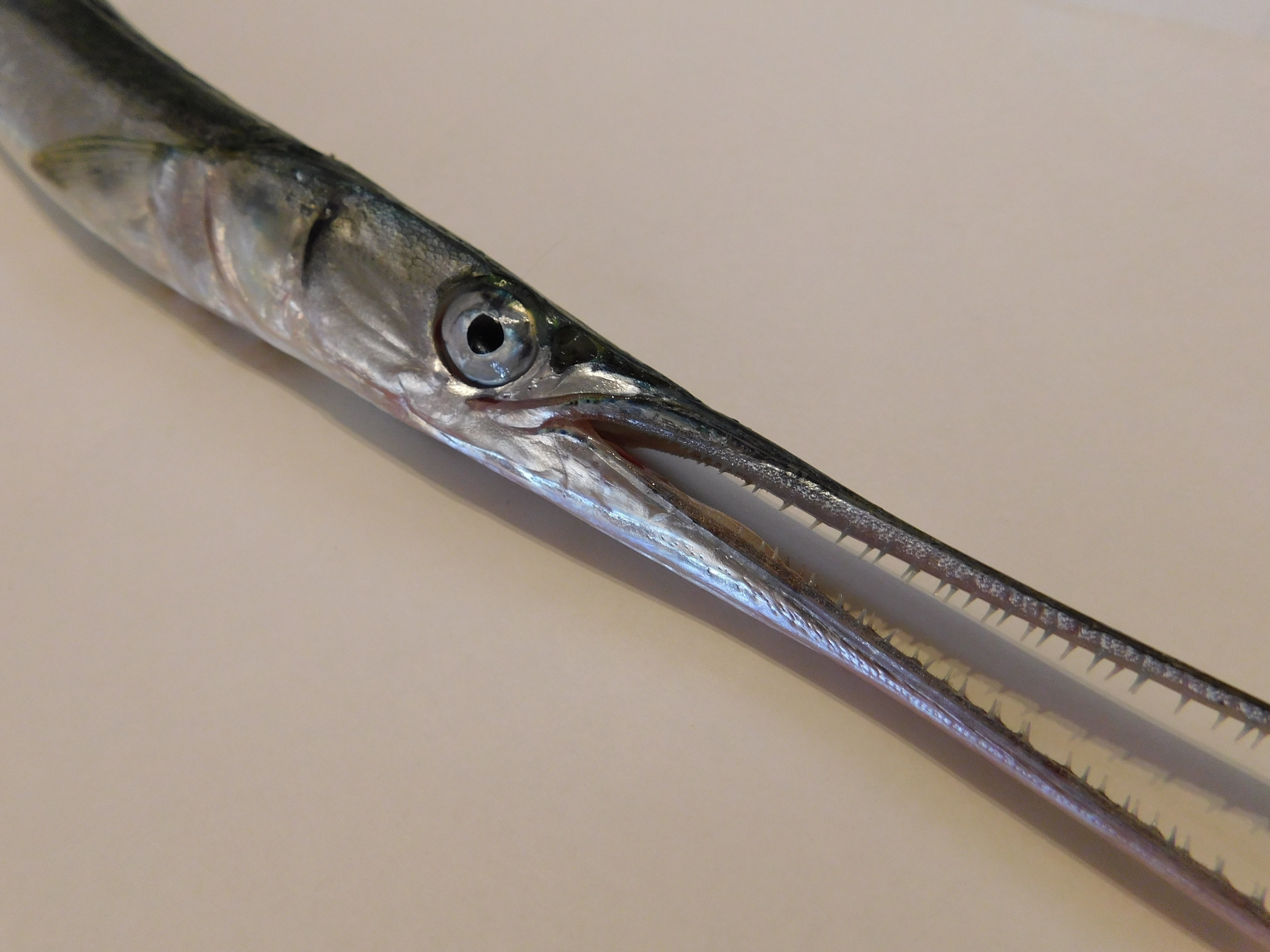 California needlefish (Strongylura exilis) from San Diego Bay, California, USA